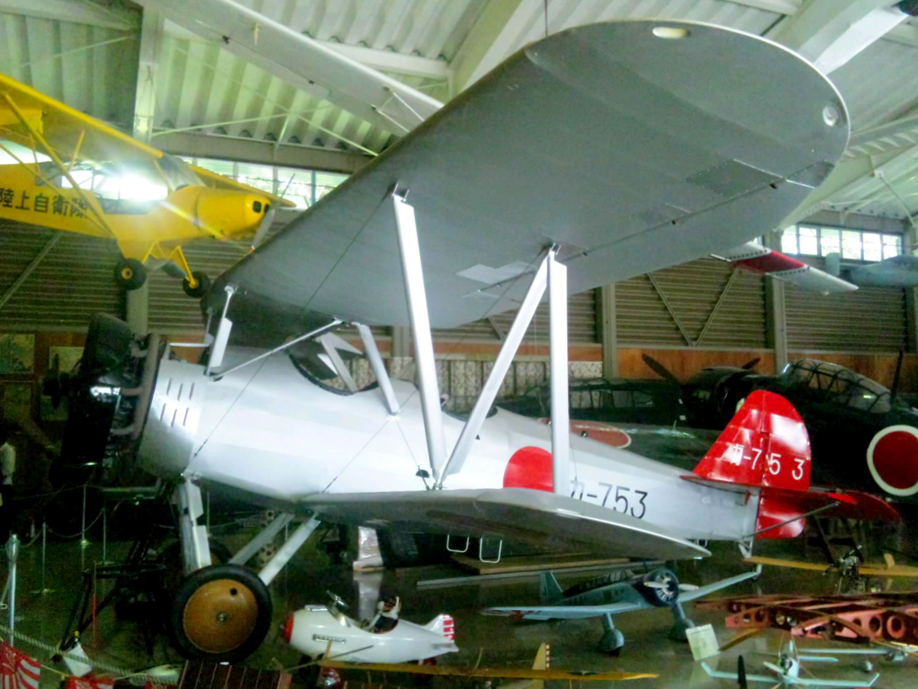 A replica of the Yokosuka K5Y trainer at the Kawaguchiko Motor Museum, Yamanashi prefecture, Japan